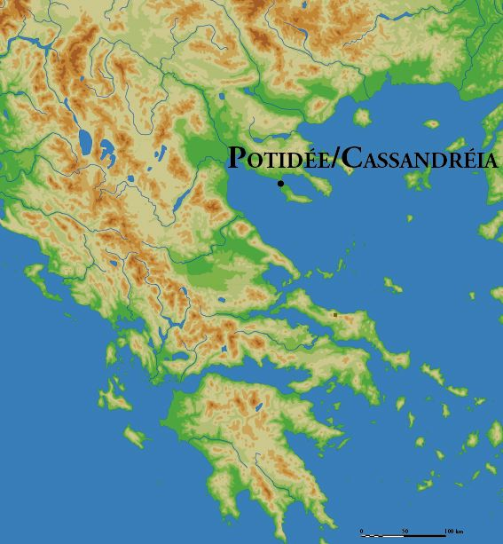 Cassandreia location in Greece. Drawing by Marsyas.